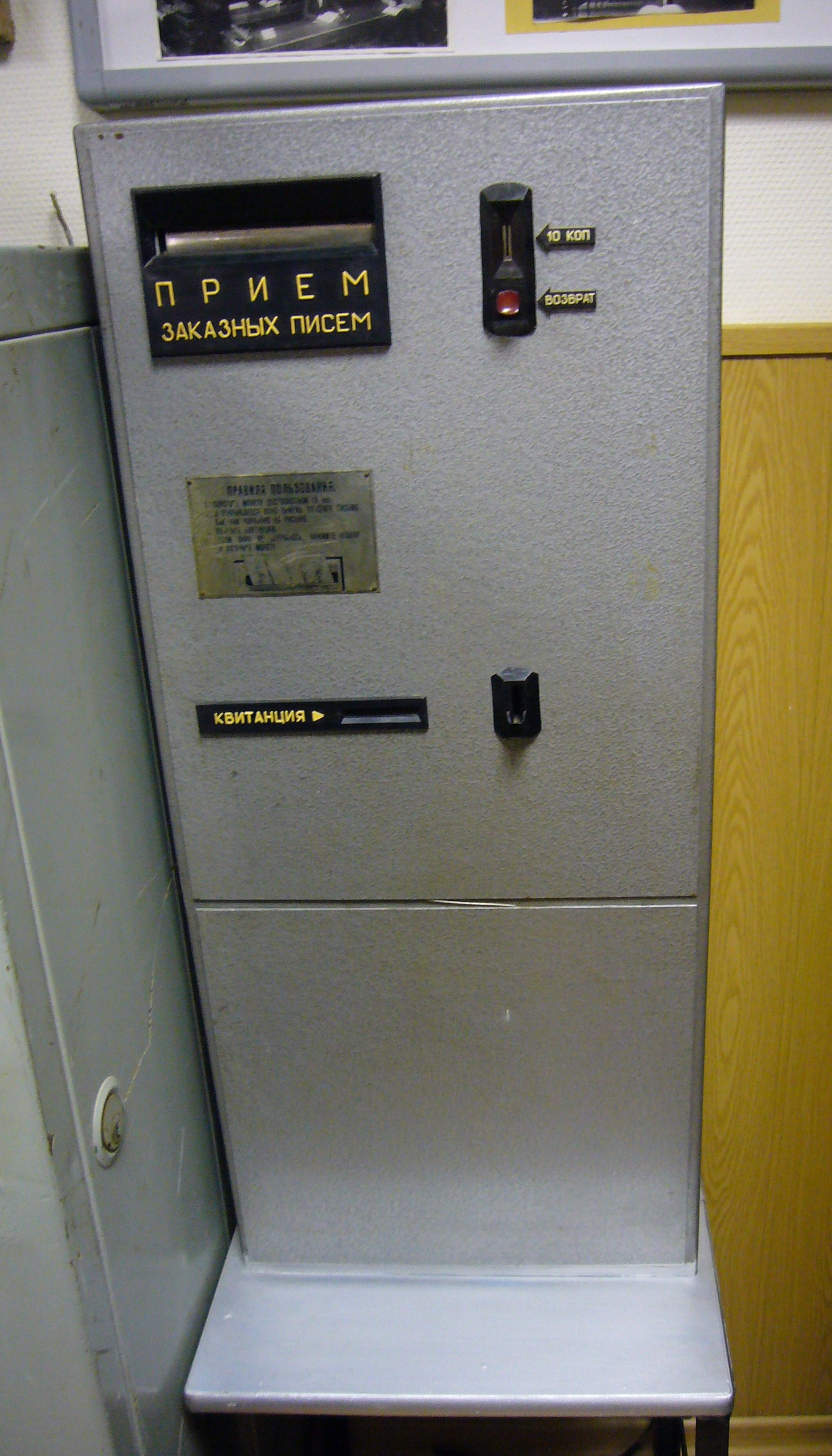 USSR registered letters acceptance machine. Postal Museum, Moscow, Russia.